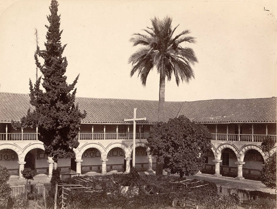 "Convent of San Francisco, Santiago, Chile, 1865," view of courtyard. [photographic print]